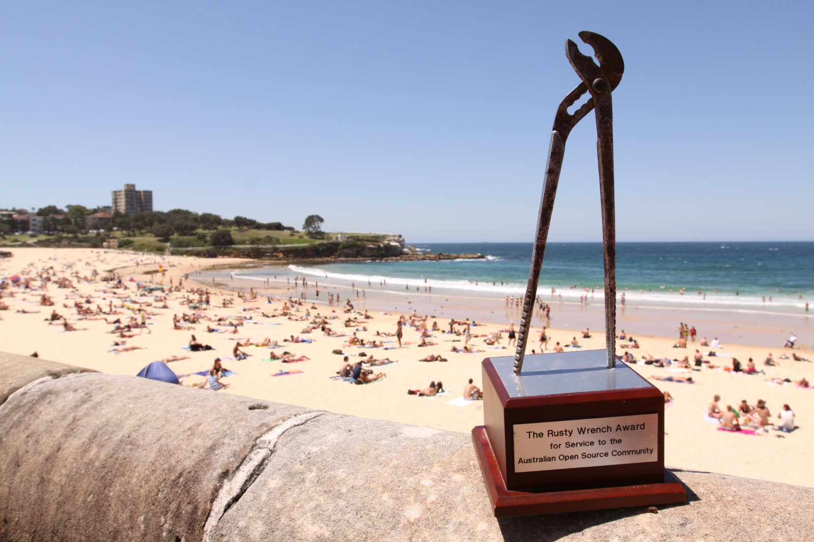 The Rusty Wrench Award for service to the Australian Open Source Community - at Coogee Beach during DrupalCon Sydney the week after Canberra 2013 where it was awarded to Donna Benjamin.